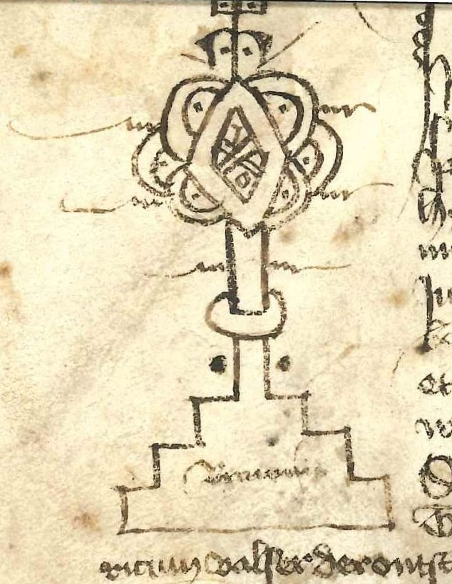 The sign of the late medieval public notary Hans Braun from Bamberg and Bozen